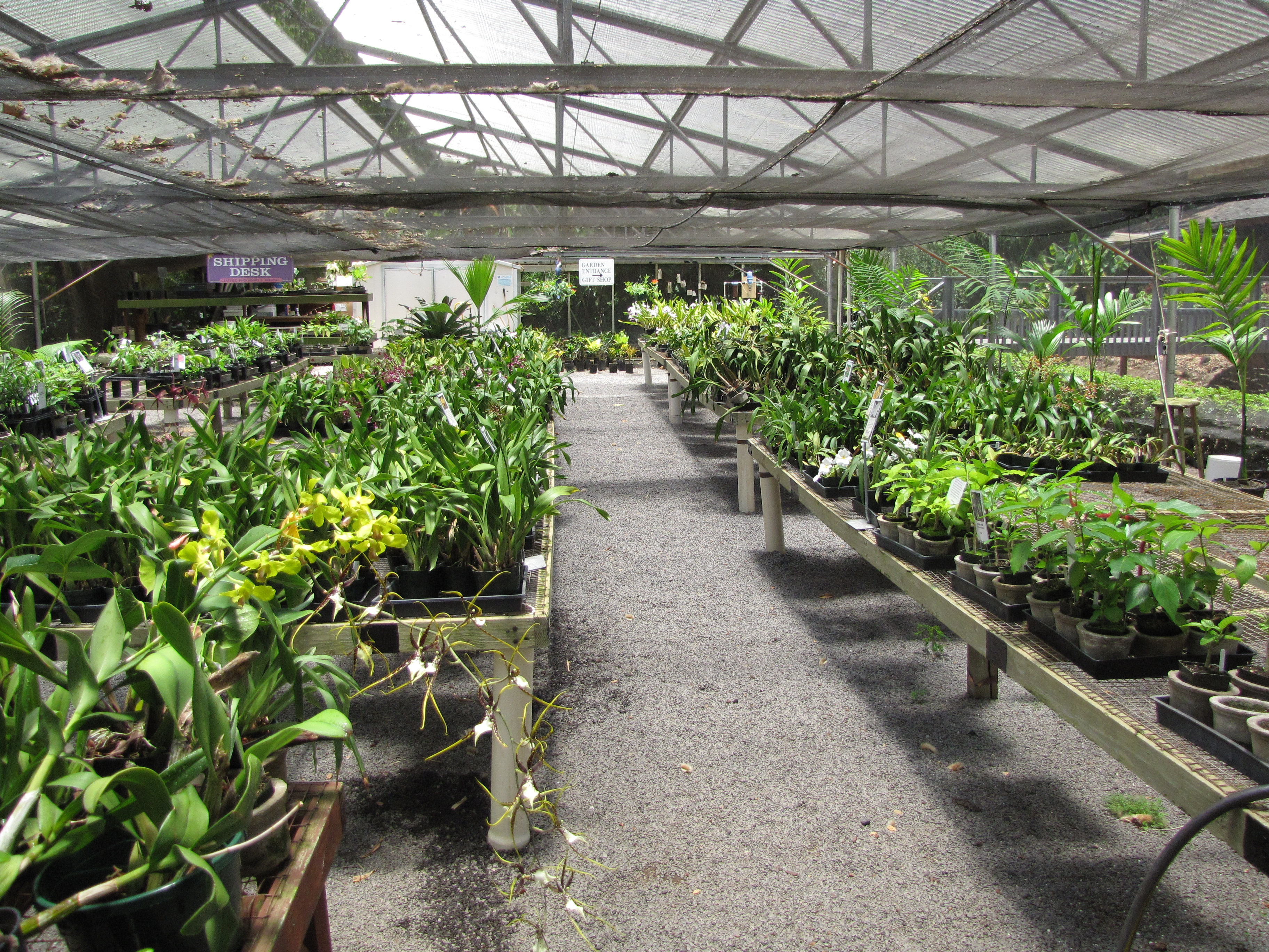 Acalypha hispida (Chenille plant, red hot cattail) Habitat and nursery at Iao Tropical Gardens of Maui, Maui, Hawaii. May 22, 2012 #120522-6670 Image Use Policy